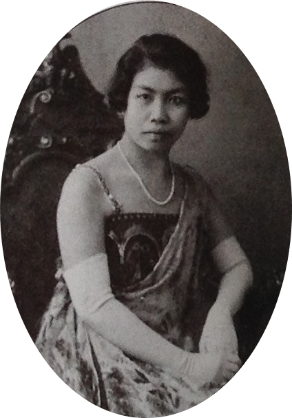 Her Serene Highness Prince Barabimalabanna Voravan